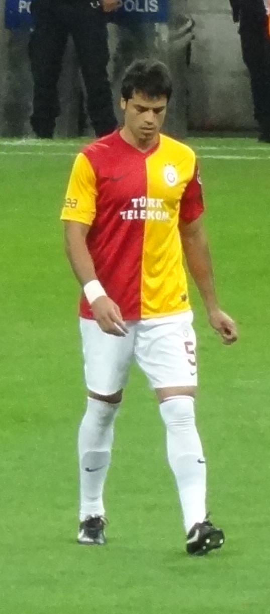 gokhanzanagainstsamsunspor